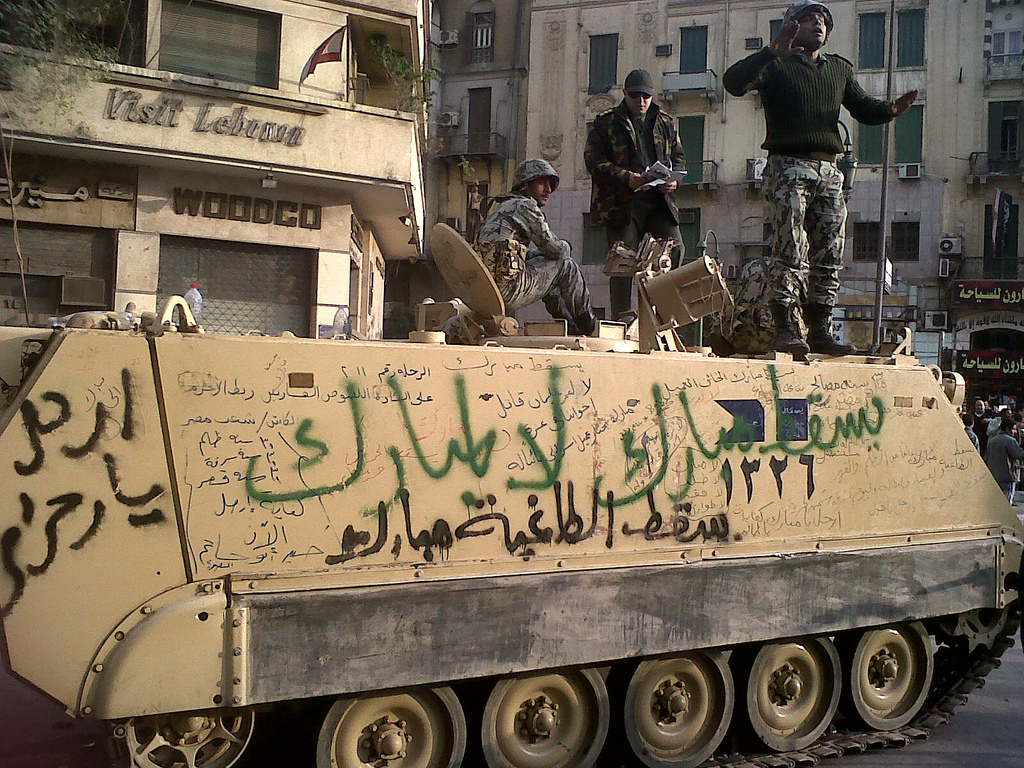 Flickr user mnadi offers the following translations: "Down with Mubarak", "No Mubarak", "Mubarak the tyrant has fallen" and "30 years stealing and unfairness.. enough is enough.. leave.. NOW"